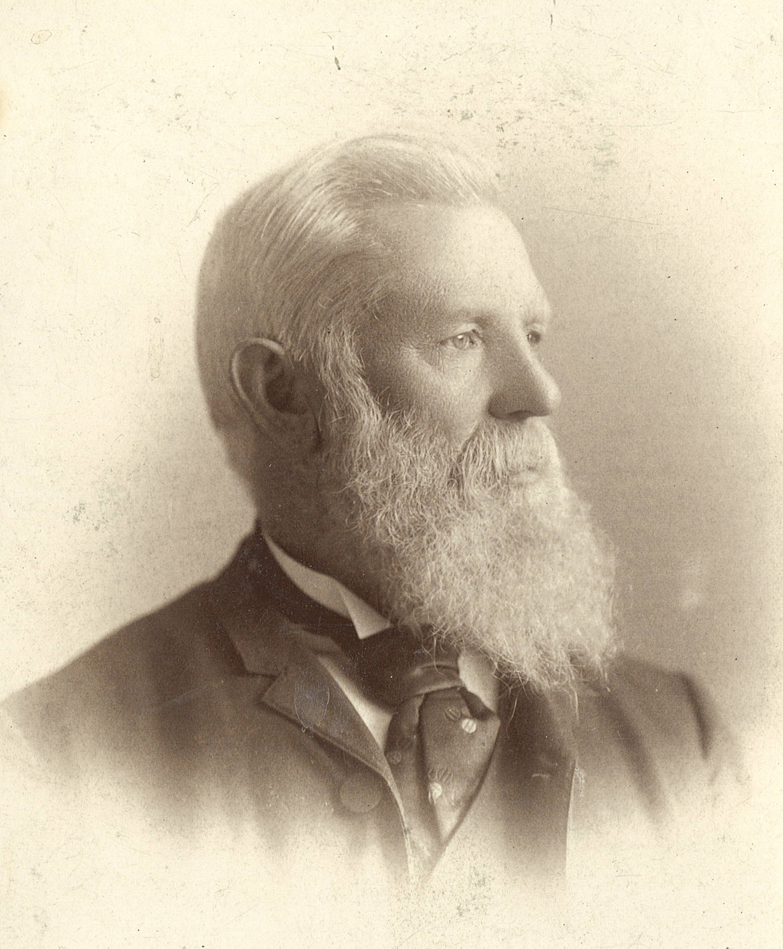 Canute Peterson. Original size: 17×11cm.